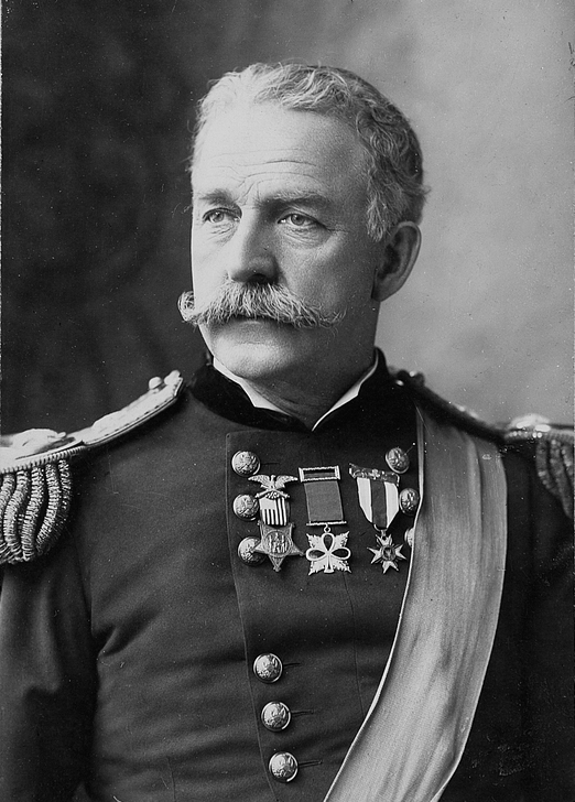 Nelson Miles Appleton (1839-1925), Collodion print on card